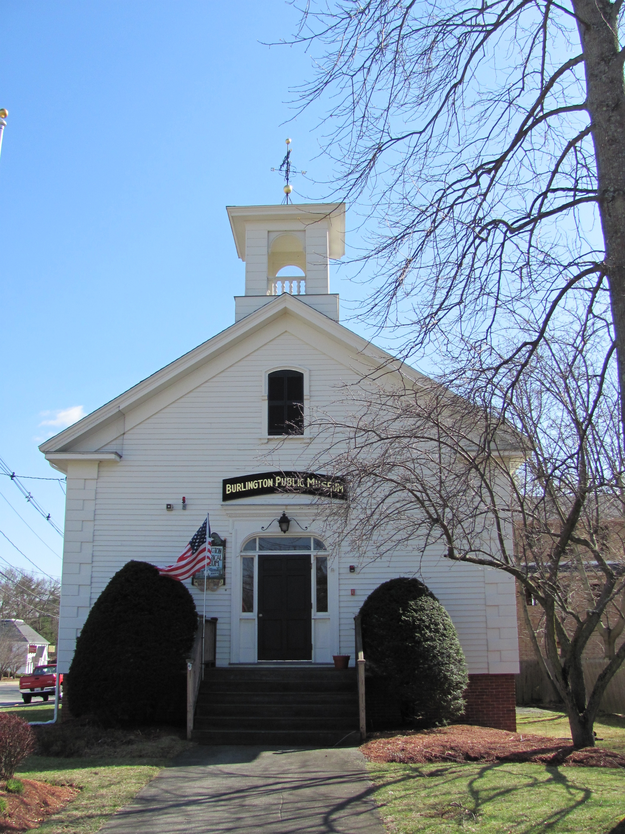 Center School, Burlington Massachusetts - Burlington Historical Museum